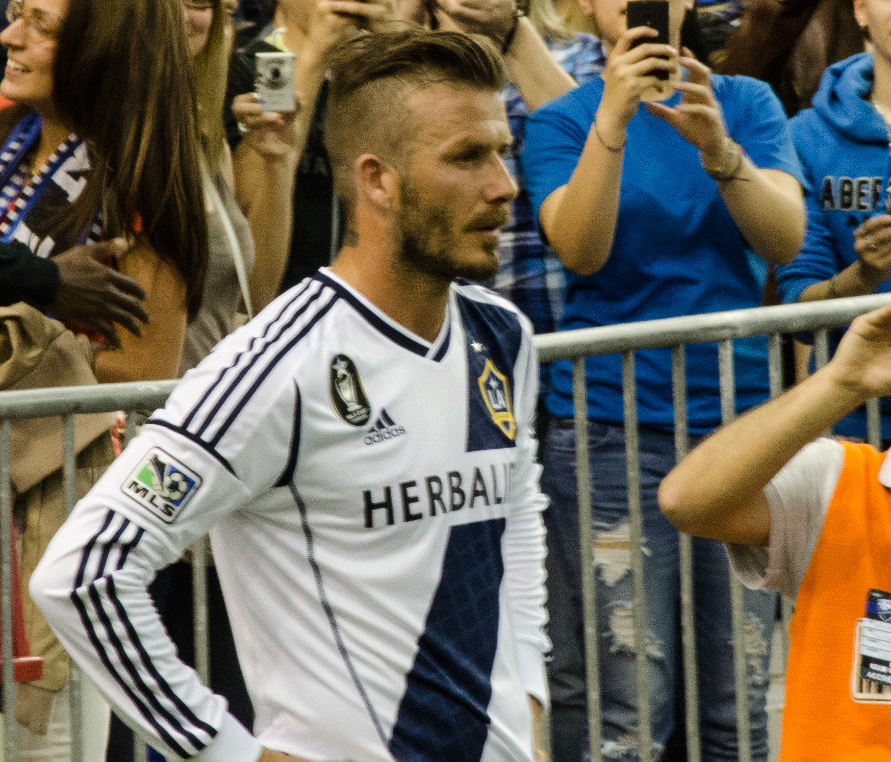 David Beckham waits to take a corner kick.